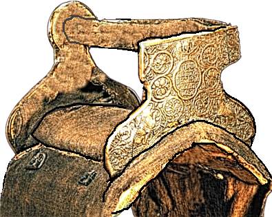 Side saddle from Iceland. Description is year 1682